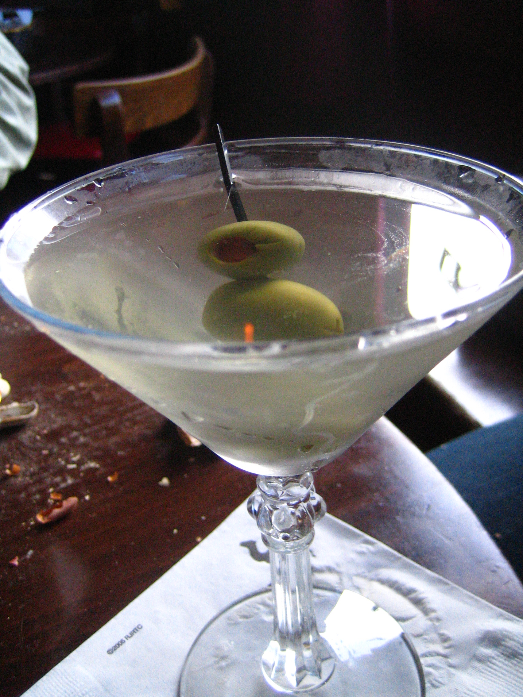 Betsy's usual (martini, vodka, dirty martini, bar, The Homestead, dylans, olive, cocktail, booze, liquor, napkin, San Francisco, 2006)